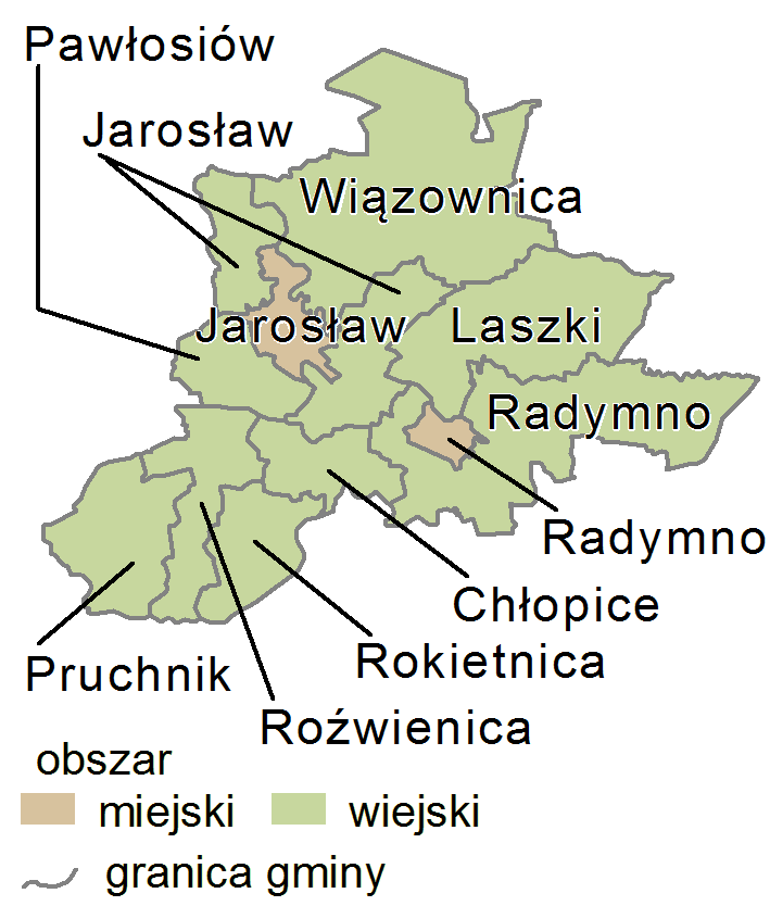 Subcarpathian Voivodeship - jarosławski county gminas